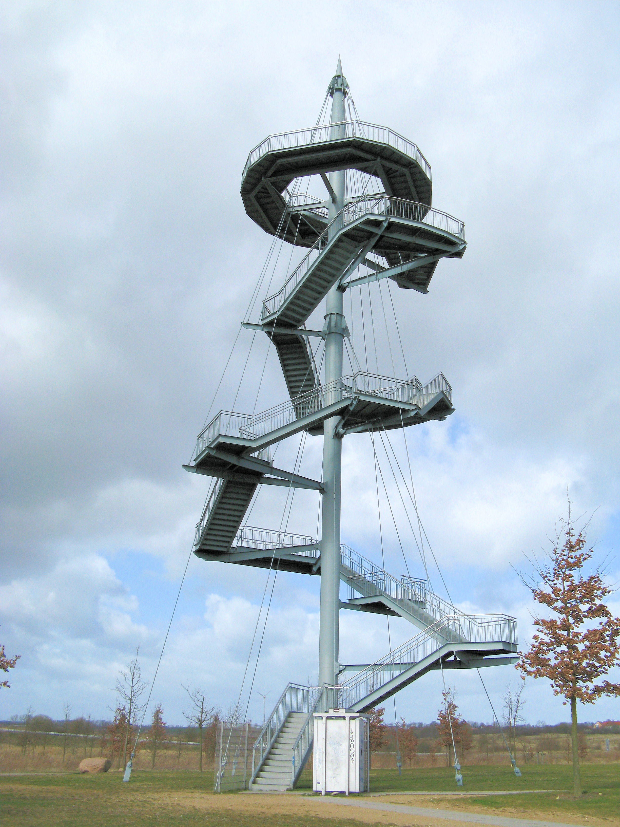 Observation tower in Wismar, district Nordwestmecklenburg, Mecklenburg-Vorpommern, Germany